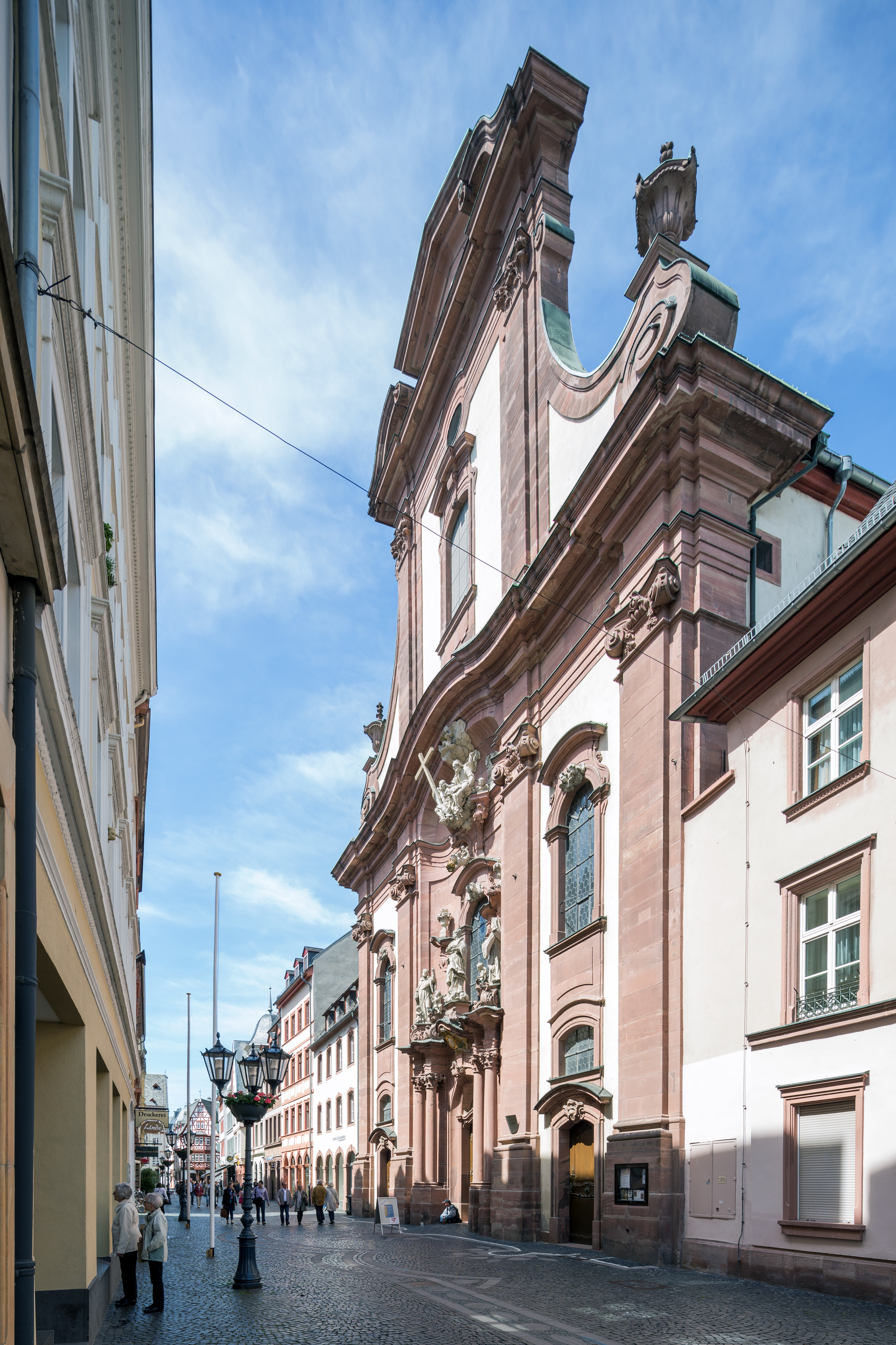 Mainz: Augustinerkirche (Augustinian Church) as seen from the southeast